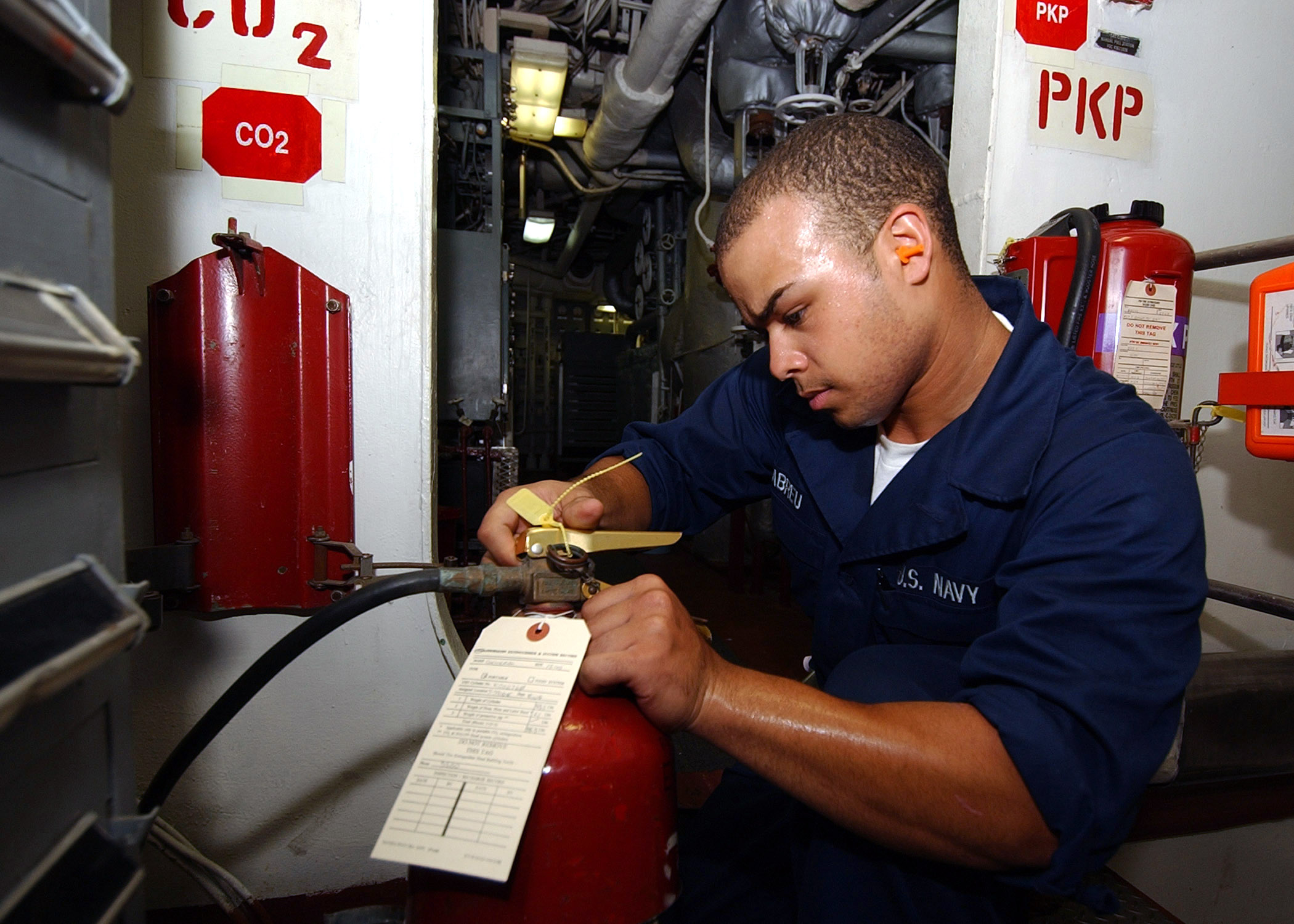 Mediterranean Sea (July 01, 2004) - Fireman Alex Abreu performs a Planned Maintenance System (PMS) check on a CO2 fire extinguisher aboard the guided missile cruiser USS Vicksburg (CG 69). Vicksburg is forward deployed to the Mediterranean Sea as part of the USS John F. Kennedy (CV 67) Carrier Strike Group (CSG). The Kennedy CSG is one of seven participating in Summer Pulse 2004. Summer Pulse 2004 is the simultaneous deployment of seven aircraft strike groups (CSGs), demonstrating the ability of the Navy to provide credible combat across the globe, in five theaters with other U.S., allied, and coalition military forces. Summer Pulse is the Navy’s first deployment under its new Fleet Response Plan (FRP). U.S. Navy photo by Photographer’s Mate 2nd Michael Sandberg (RELEASED)